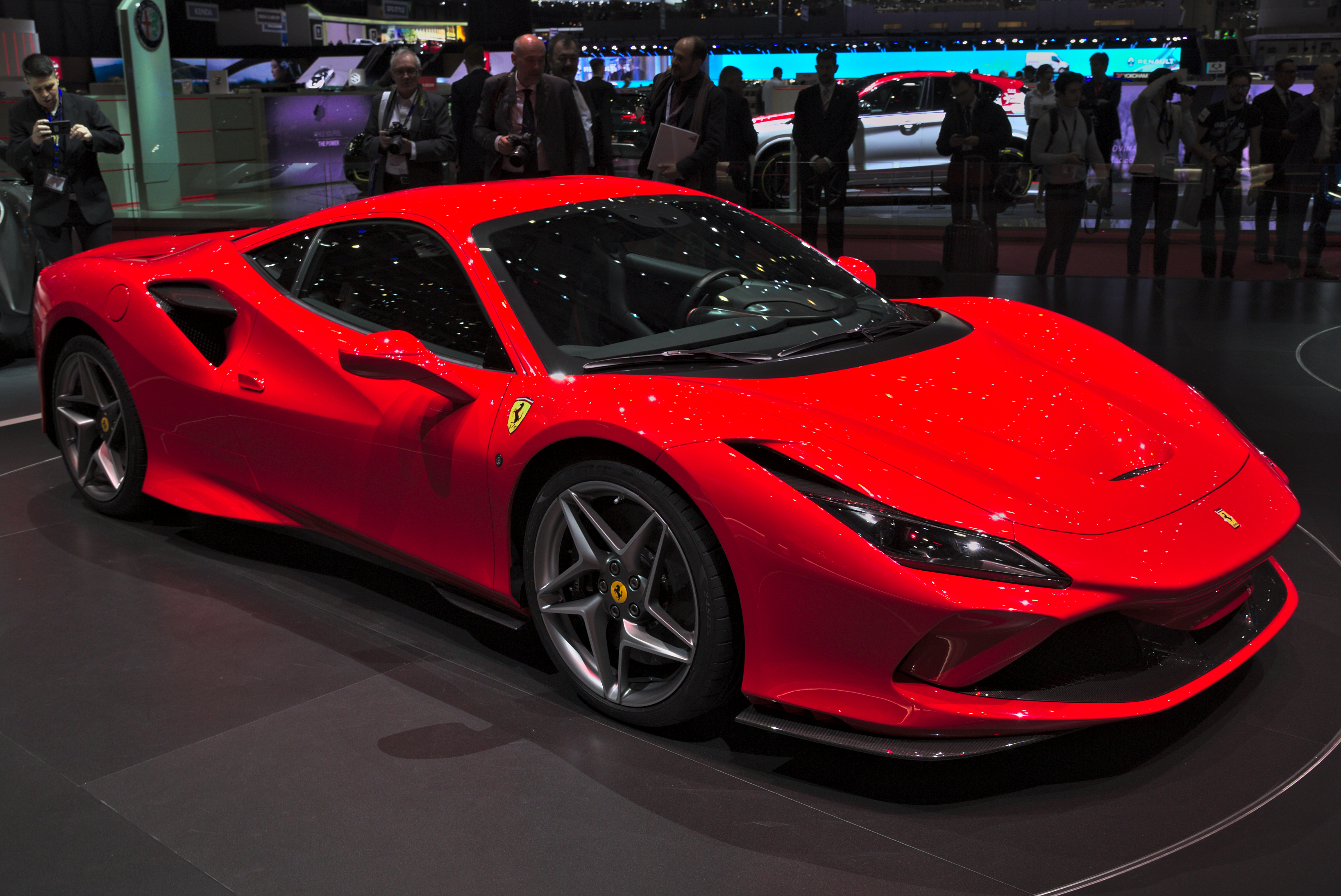 Ferrari F8 Tributo at Geneva Motorshow 2019